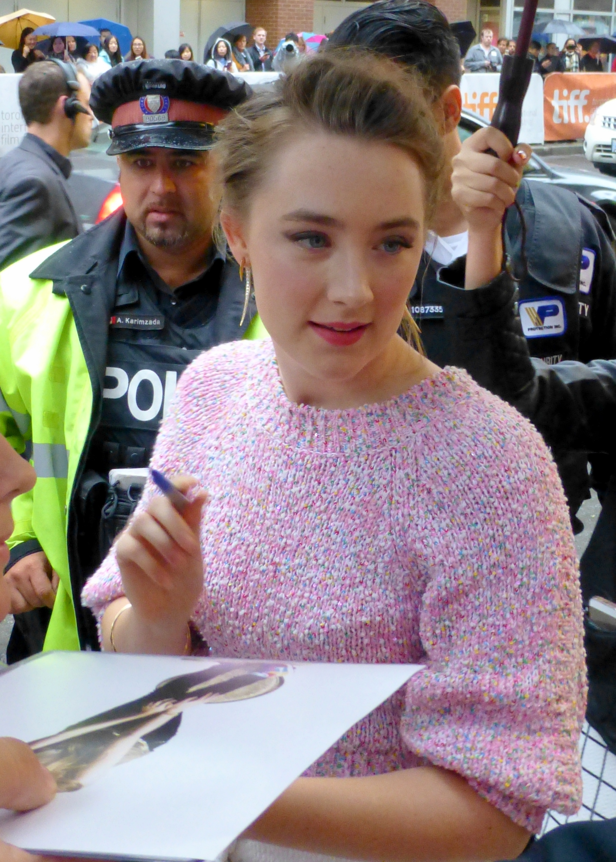 Saoirse Ronan at the premiere of Brooklyn (2015) during the 2015 Toronto International Film Festival (TIFF) at the Winter Garden Theatre on September 13, 2015 in Toronto, Canada.